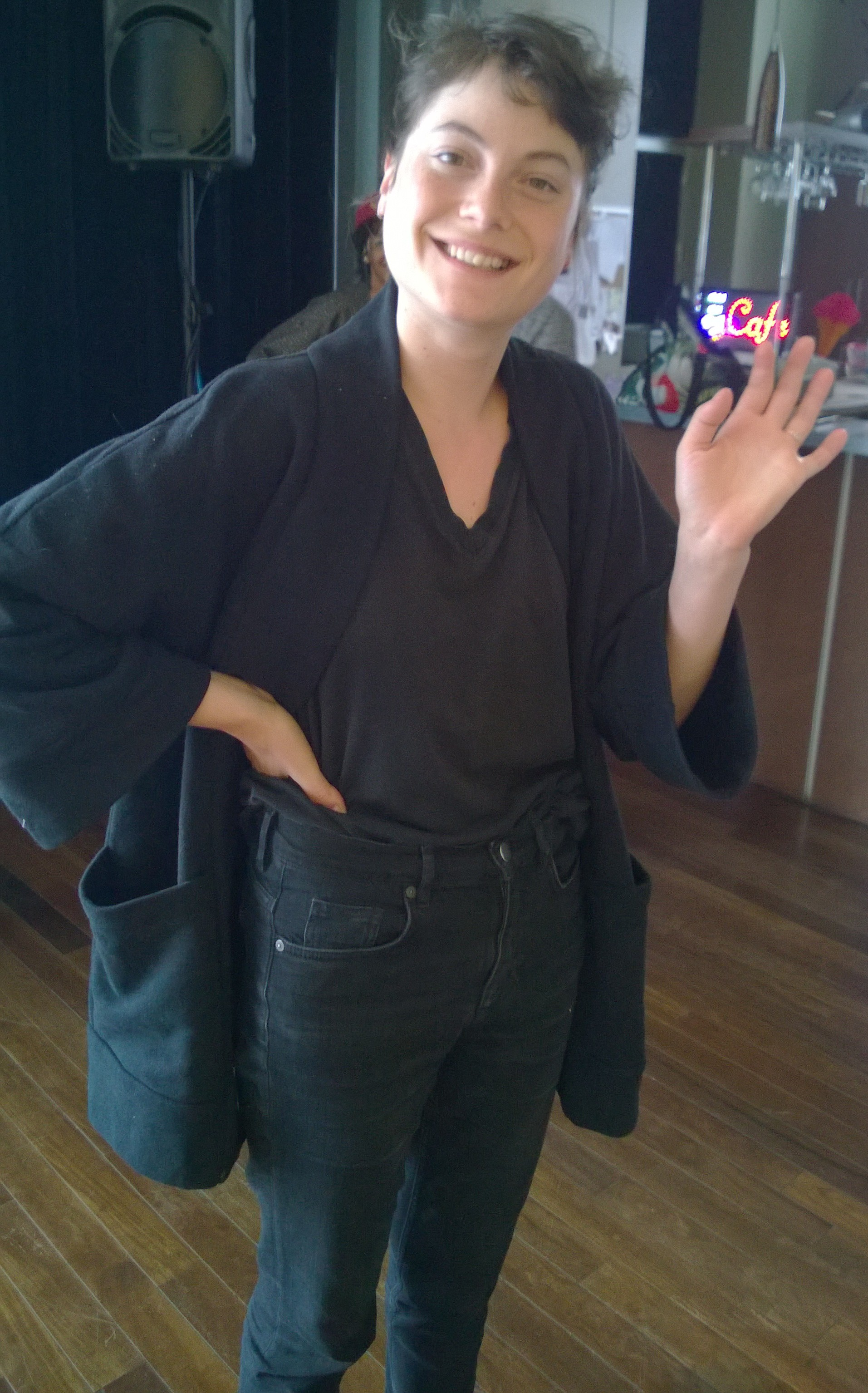 Julianne Côté photographed in Montréal , Québec, Canada at the Maisonneuve Cultural Centre.